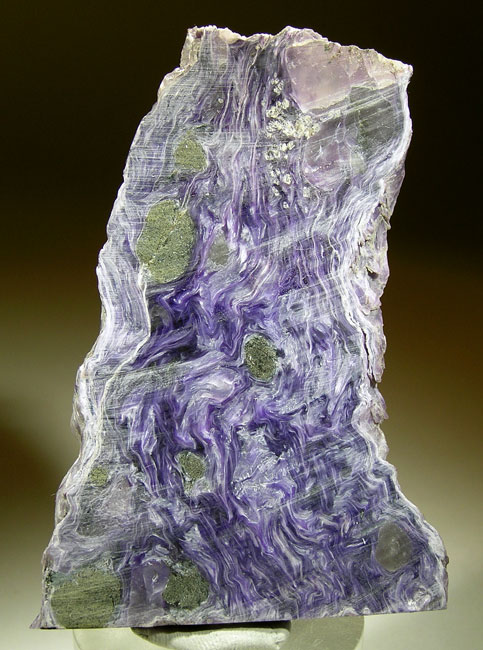 Charoite Locality: Murunskii Massif, Chara and Tokko Rivers Confluence, Aldan Shield, Saha Republic (Sakha Republic; Yakutia), Eastern-Siberian Region, Russia (Locality at ) The specimen is 8 cm tall.